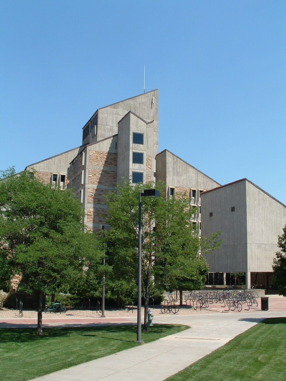 University of Colorado Engineering Center on July 13, 2006